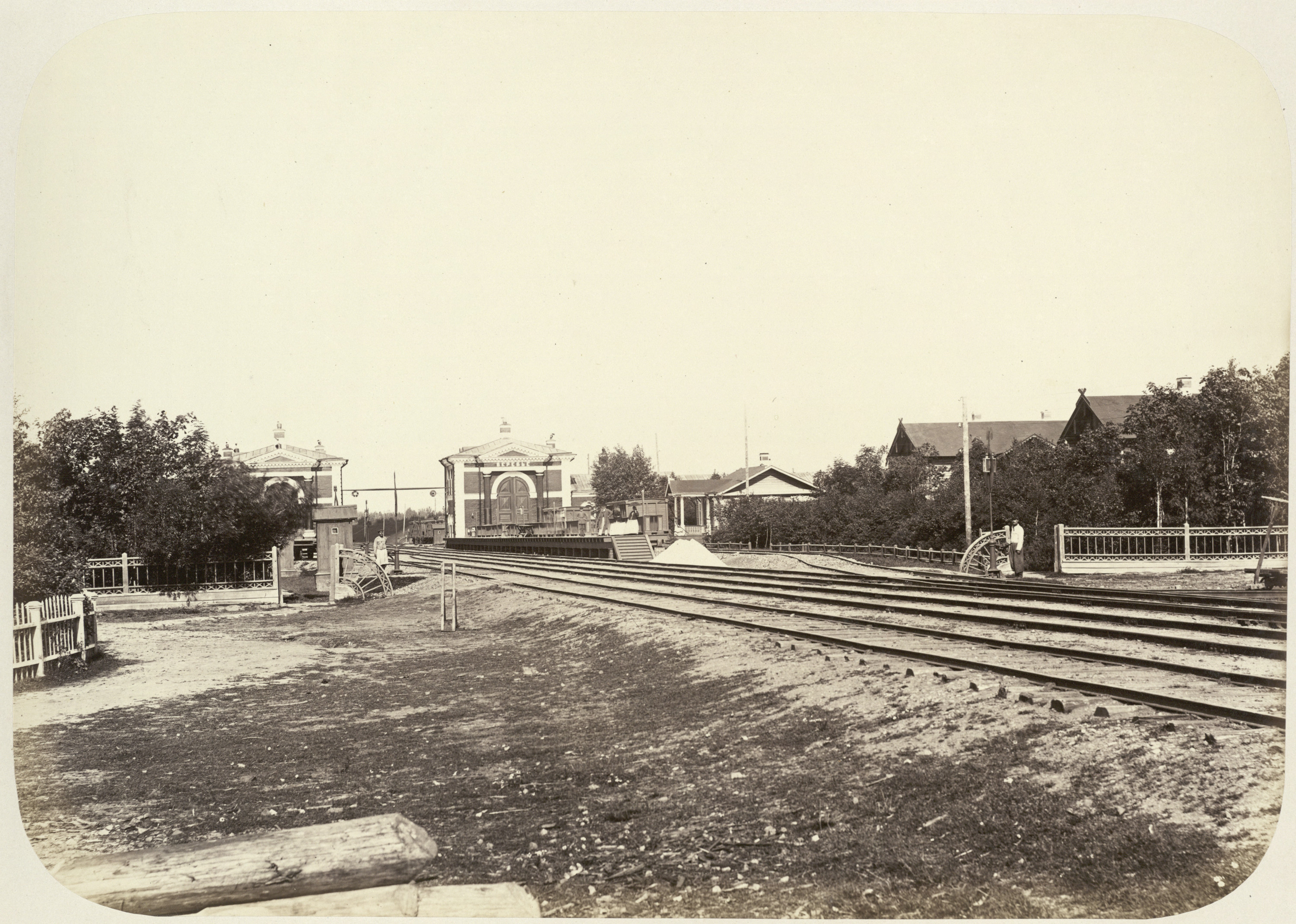 Railway station Vereb'e